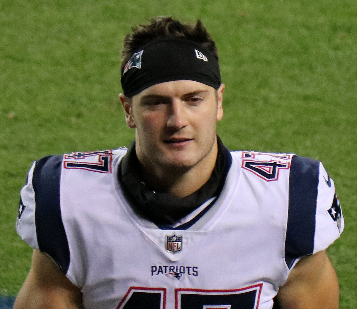 Jacob Hollister, a player on the National Football League.